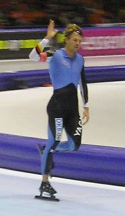 Anton Hahn (GER) at a World Cup in Thialf (Heerenveen, The Netherlands)